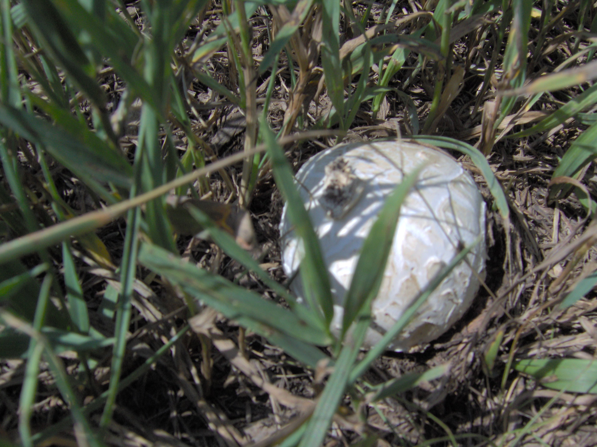 Puffball Mushroom Saskatchewan According to Orson K. Miller, Jr. author of Mushrooms of North America, ISBN 0-525-47482-X, the true puffball mushroom belongs to the Gastromycetes name and this particular puffball is further classified as a Lycoperdales, or the true puffball (page 298. It has no stak, the skin does not form rays, The gleba is first pale and fleshy, then powdery glebas form when mature. There are further and narrow classifications given as well.